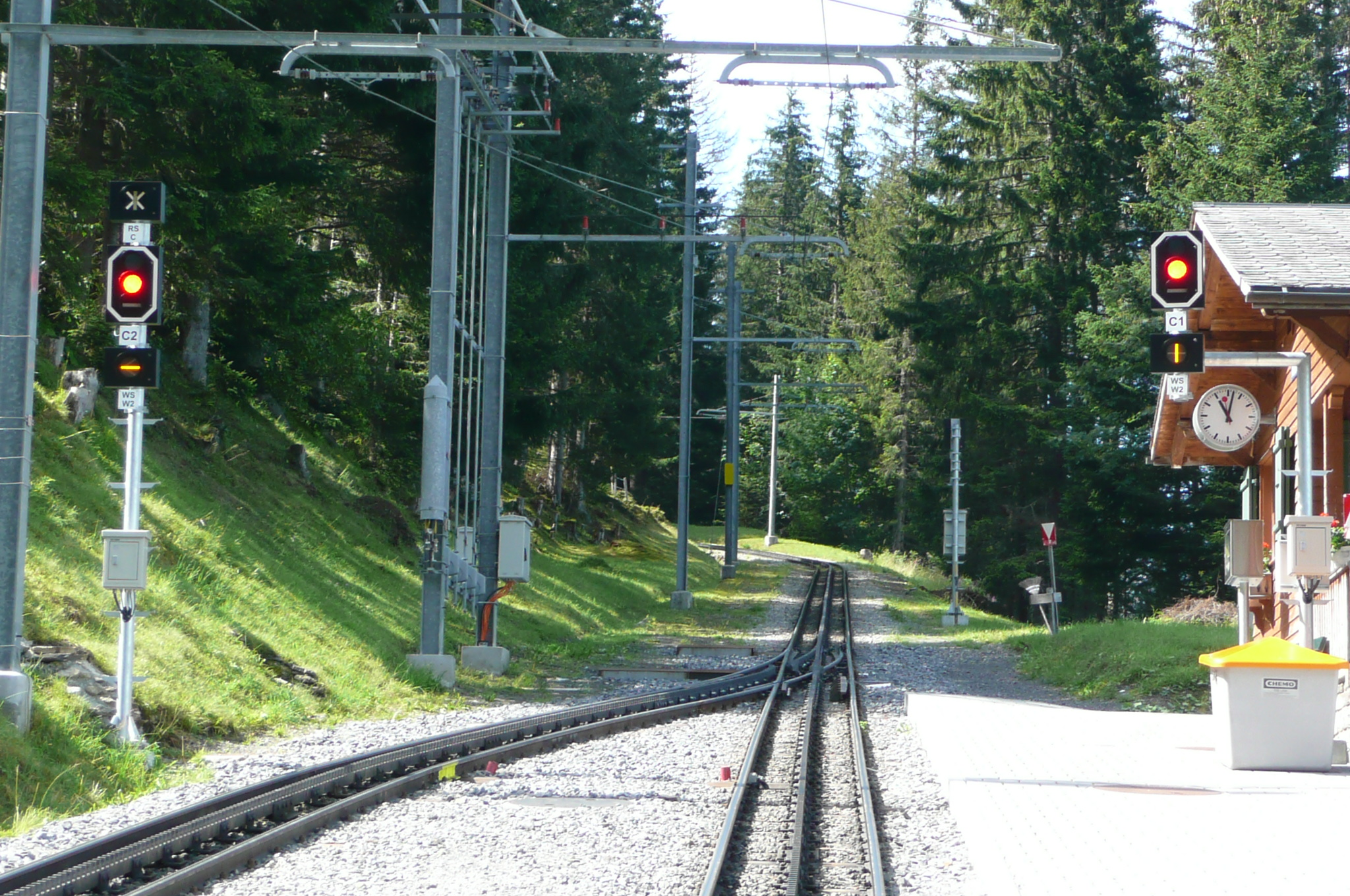 Wengernalp rack railway stop and passing point Allmend exit signal uphill direction Kleine Scheidegg – 2009-08-05